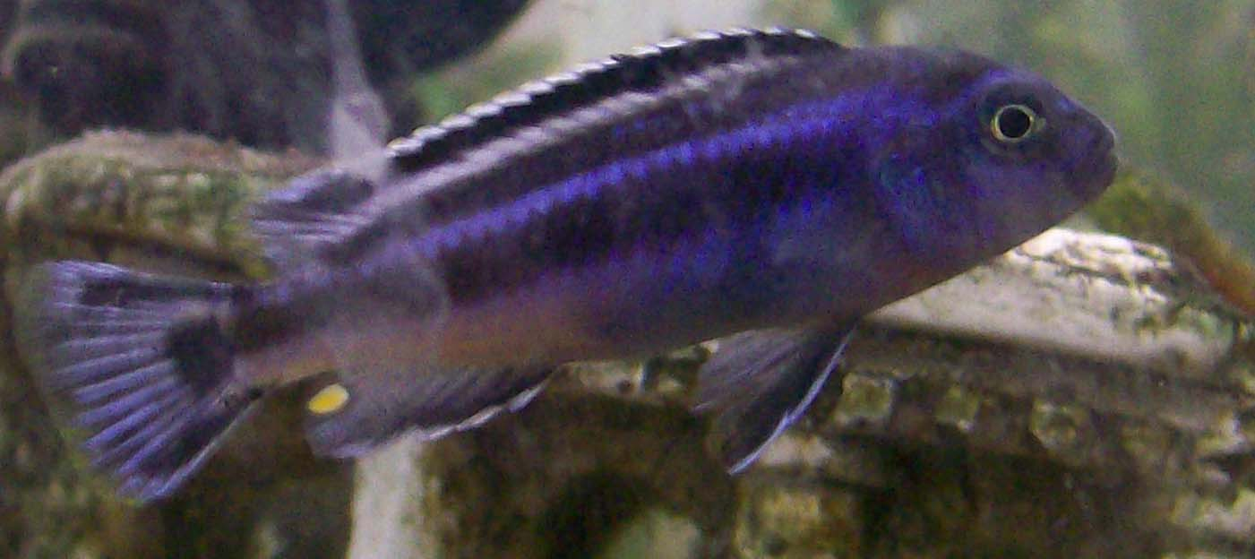 Male Melanochromis johannii (common name: electric blue johanni)